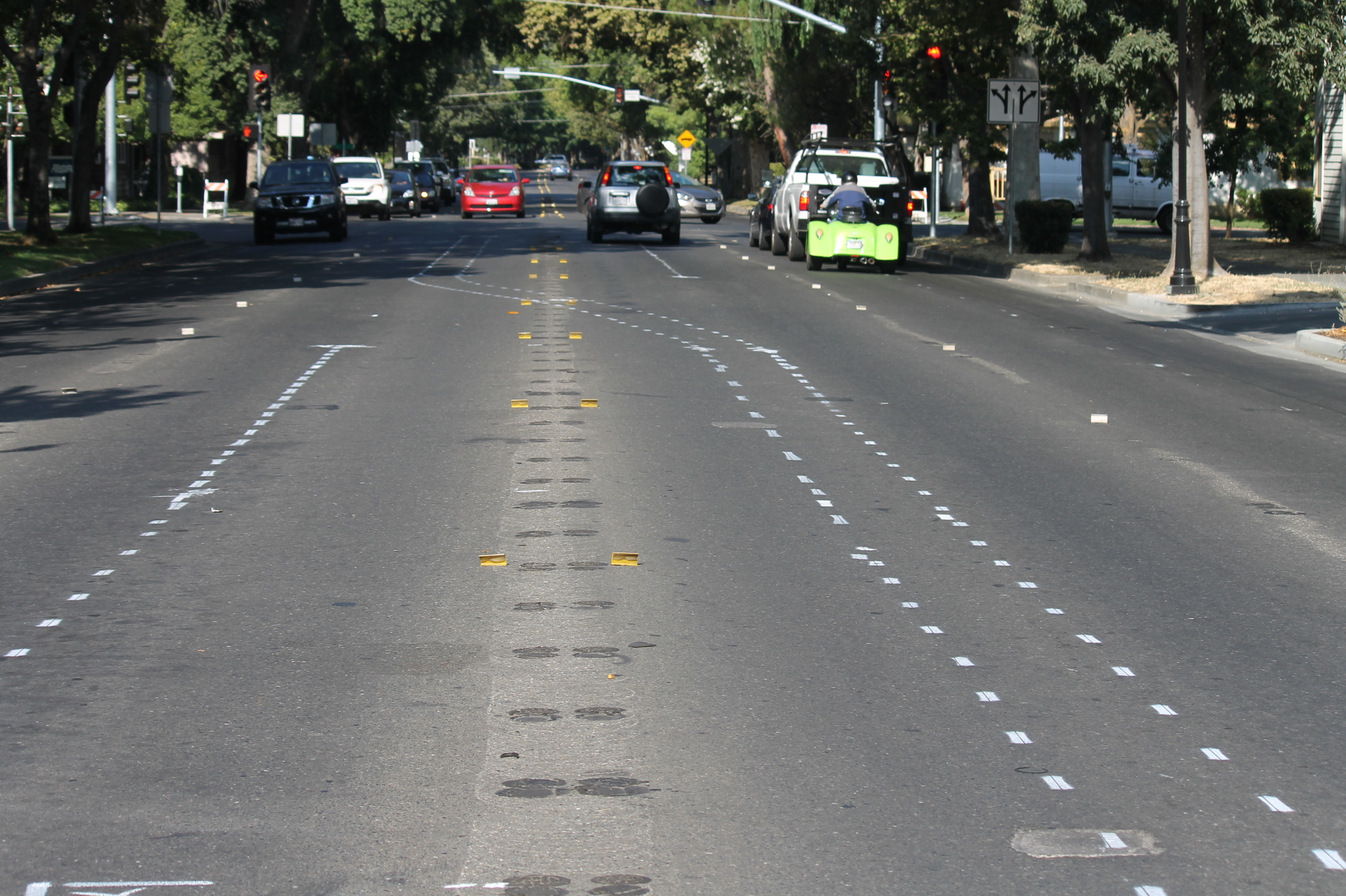 During the process of changing 4 lanes into 2 lanes plus bike lanes.